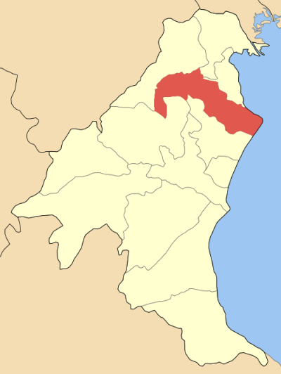 Locator map of Pydnas municipality (Δήμος Πύδνας) at Pierias perfecture, Greece.